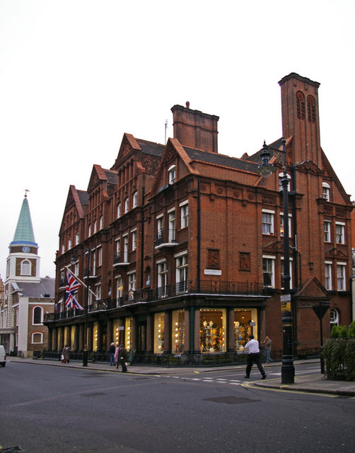 Corner South Audley Street and South Street, London W1 The Grosvenor Chapel can be seen to the left of the image.